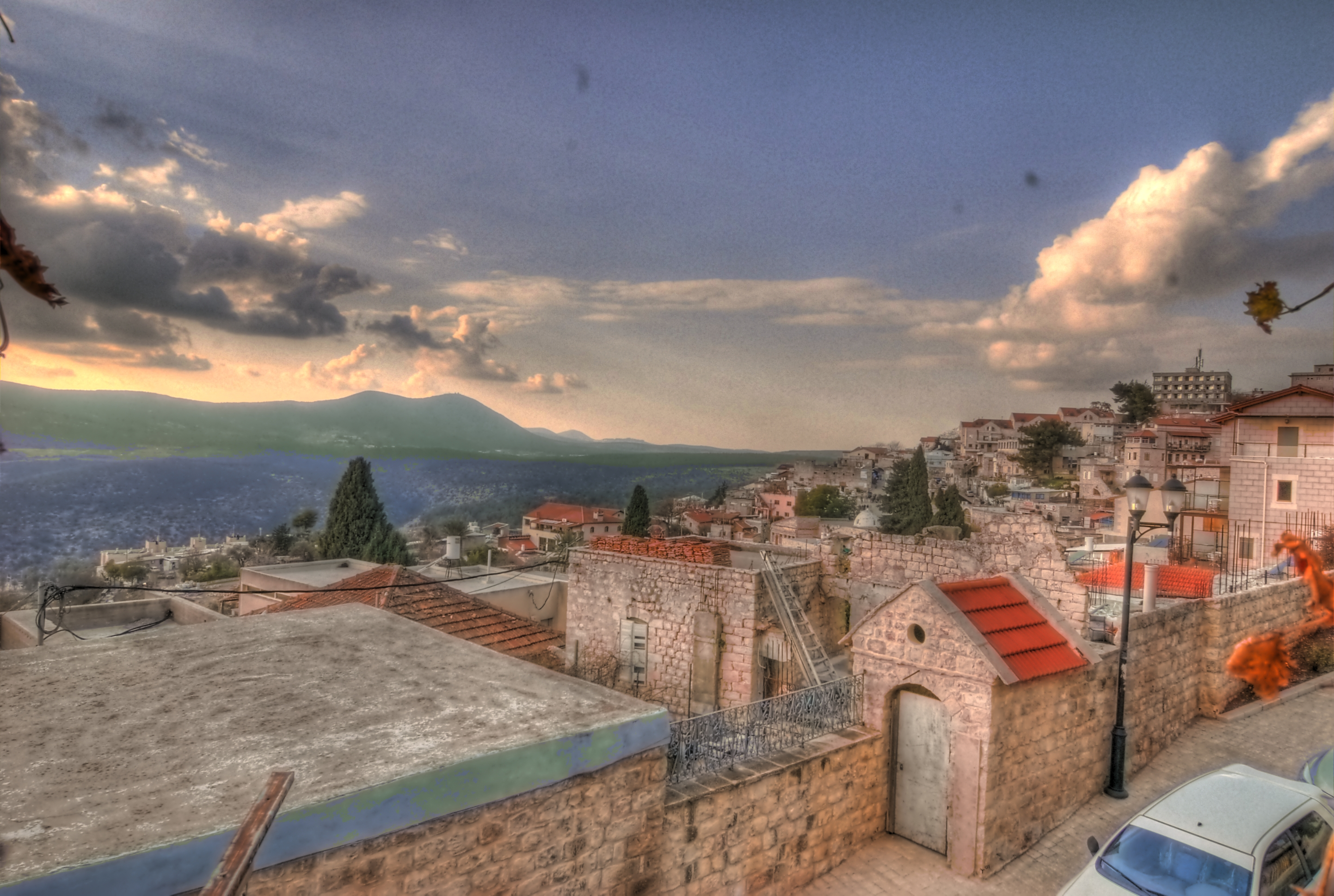 zefat's old city view